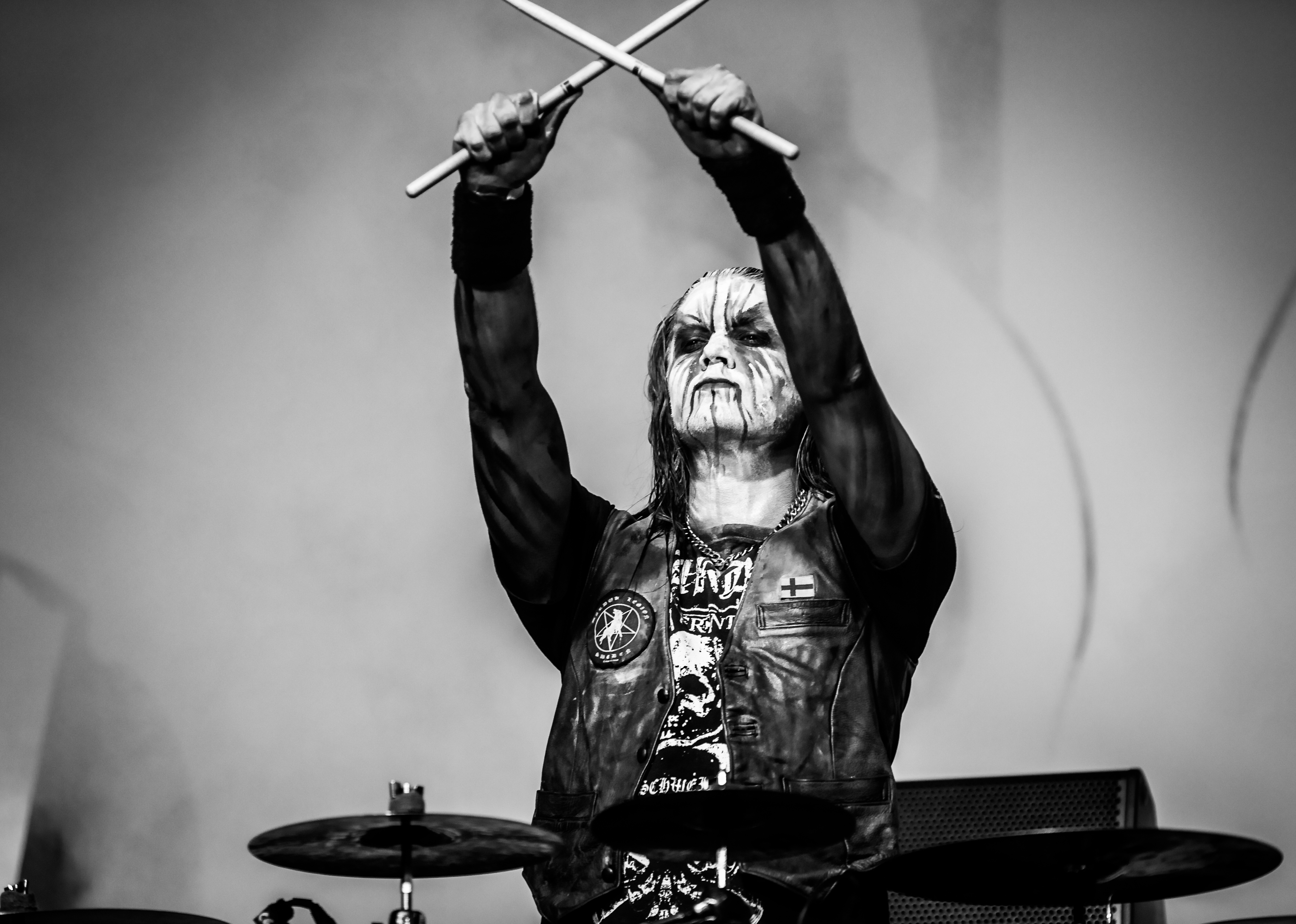 Marduk - Wacken Open Air 2016